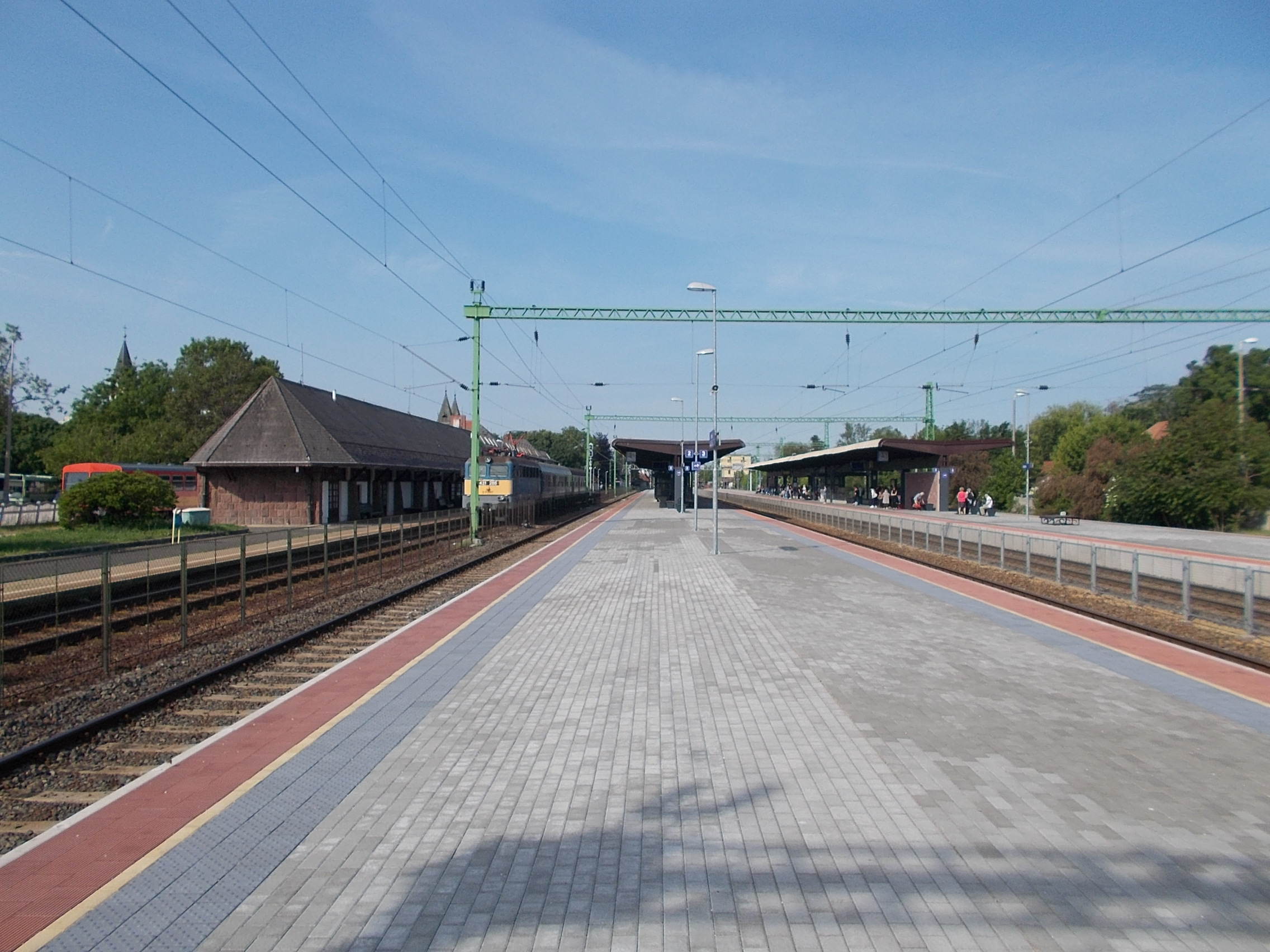 Siófok railway station. - Siófok, Somogy County, Hungary.